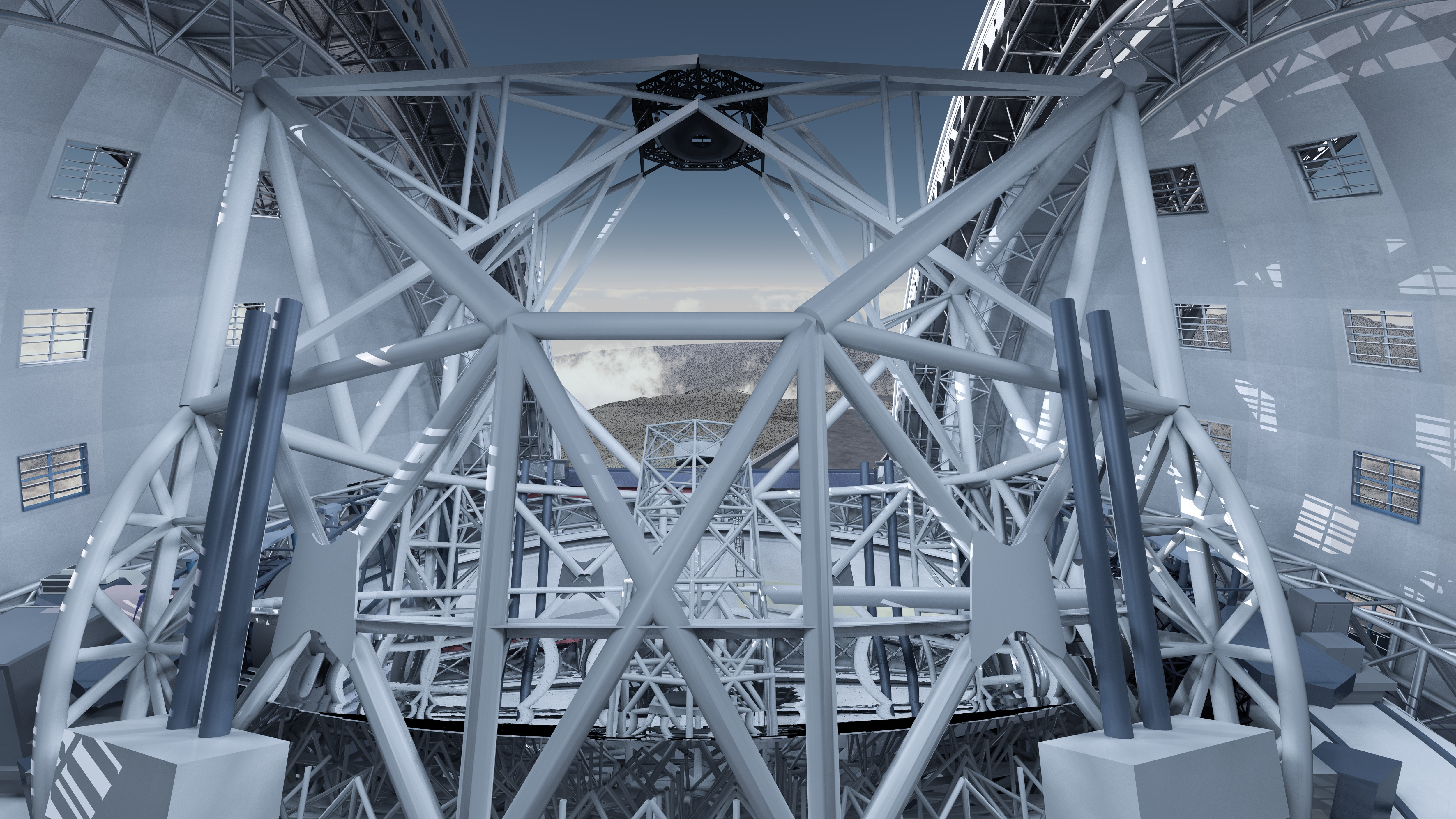 A three-dimensional model of the gigantic and intricate structure inside the enclosure of the European Extremely Large Telescope. The revolutionary design of the telescope consists of five mirrors. The main mirror, with a diameter of 42 metres, is visible in the lower part of the image, and the secondary mirror can be seen in the top part; with a diameter of 6 metres, the secondary mirror has almost the same size as the primary mirrors in the biggest telescopes currently in operation. A third mirror, with a diameter of 4 metres, lies below the main mirror, and two additional, smaller mirrors are contained in the little, white structure visible in the centre of the image: they will be used to correct the images from the blurring effect introduced by atmospheric turbulence, in order to achieve the sharpest images ever obtained from a telescope on the ground.